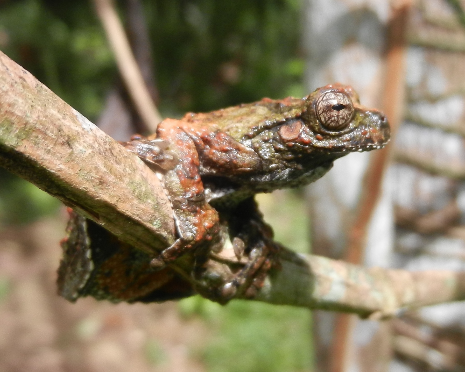 Male Dendropsophus acreanus at the Manu Learning Center, Madre de Dios (Perú).